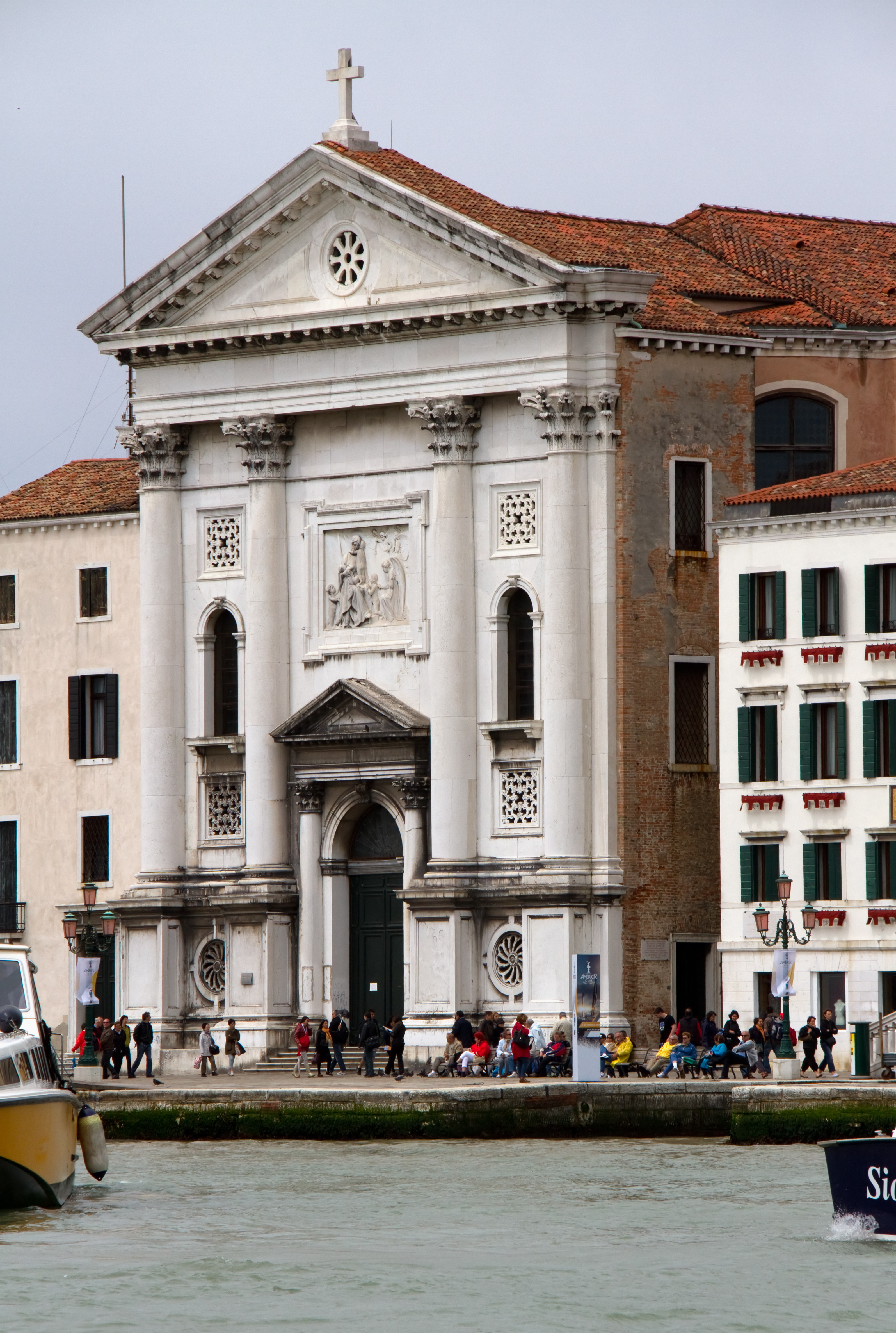 Church of the Ospedale della Pieta